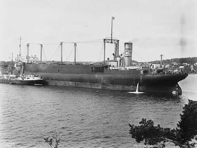 Norwegian whaling factory Thorshammer, ex. San Nazario (1914).